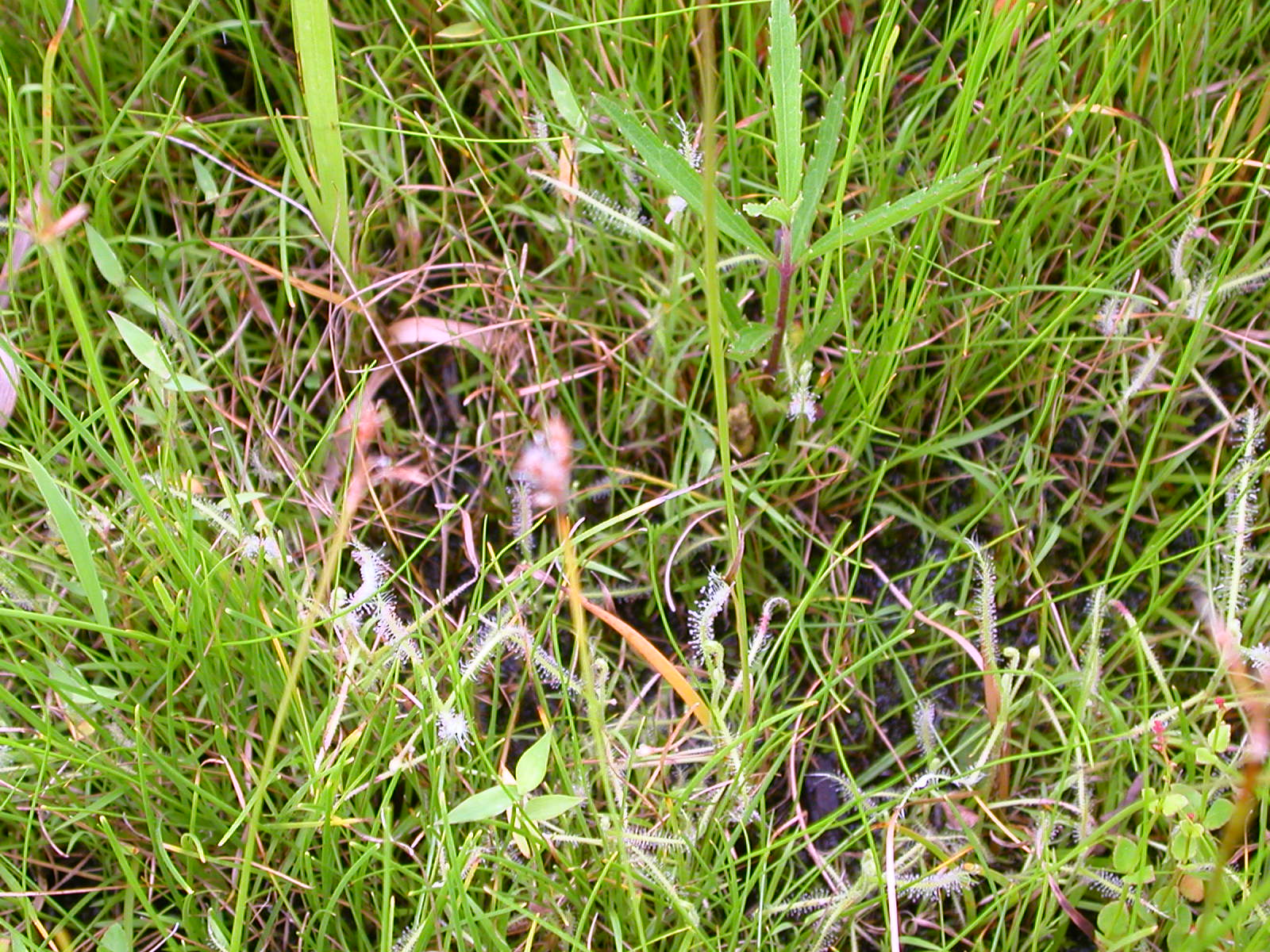 Drosera indica